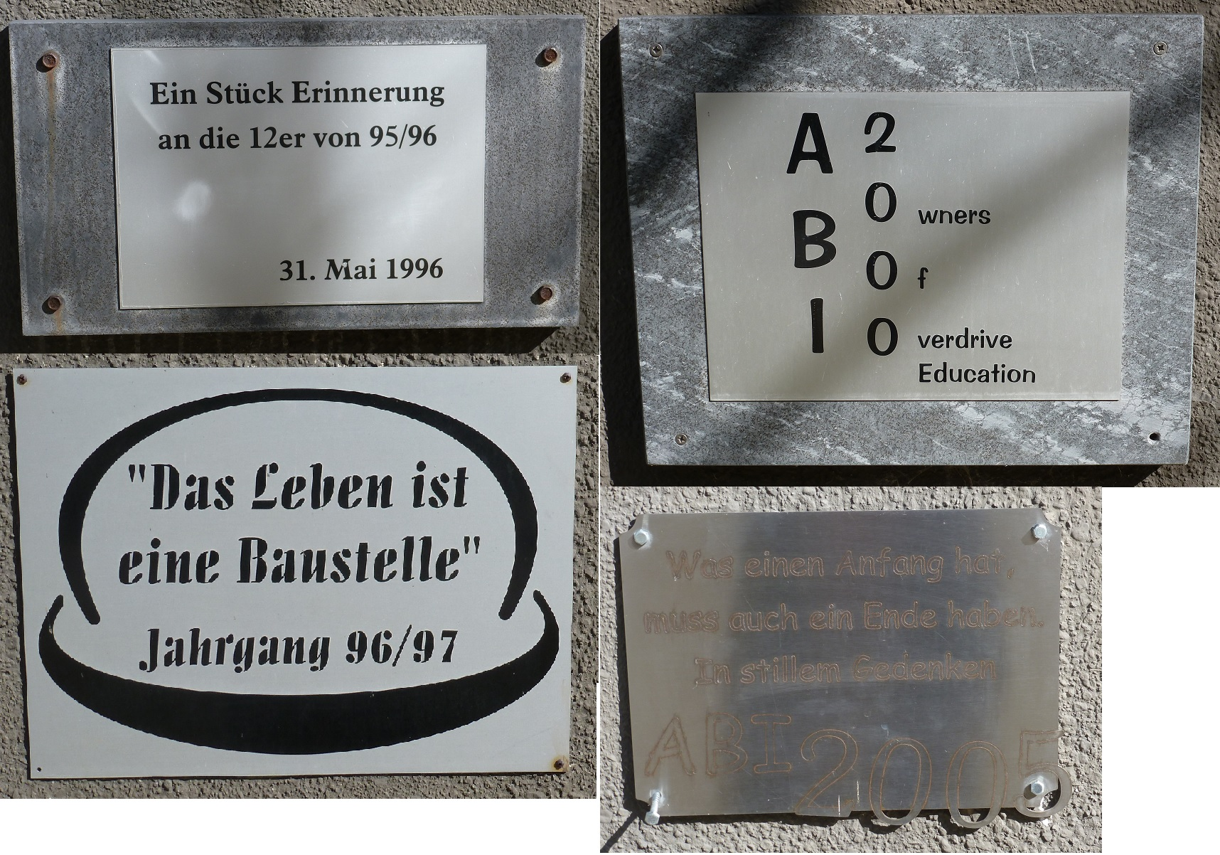 Plaques of various school graduation classes at the school facade